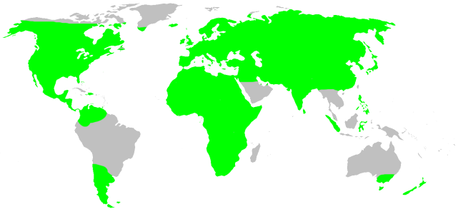 Hahniidae habitat distribution, drawn after Platnick: World Spider Catalog 7.0. This is not at all a precise rendering of the distribution! If you have better information, please replace this map, or send me the info, and i will redraw it.